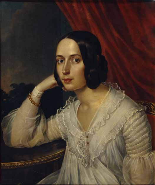 Natalia Alexandrovna Herzen nee Zakharyina (1814-1852)